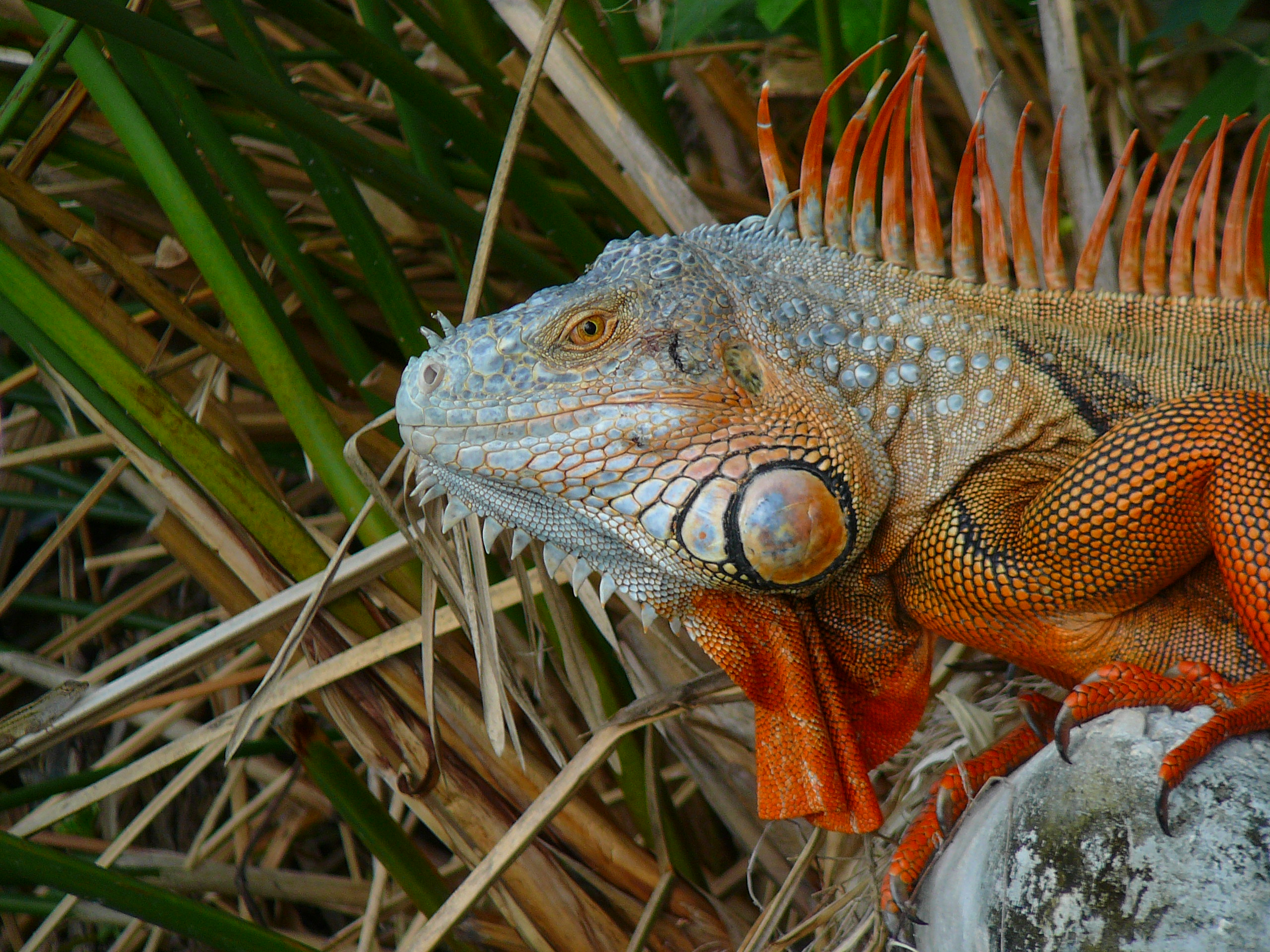 Iguana iguana from my back yard in Florida.